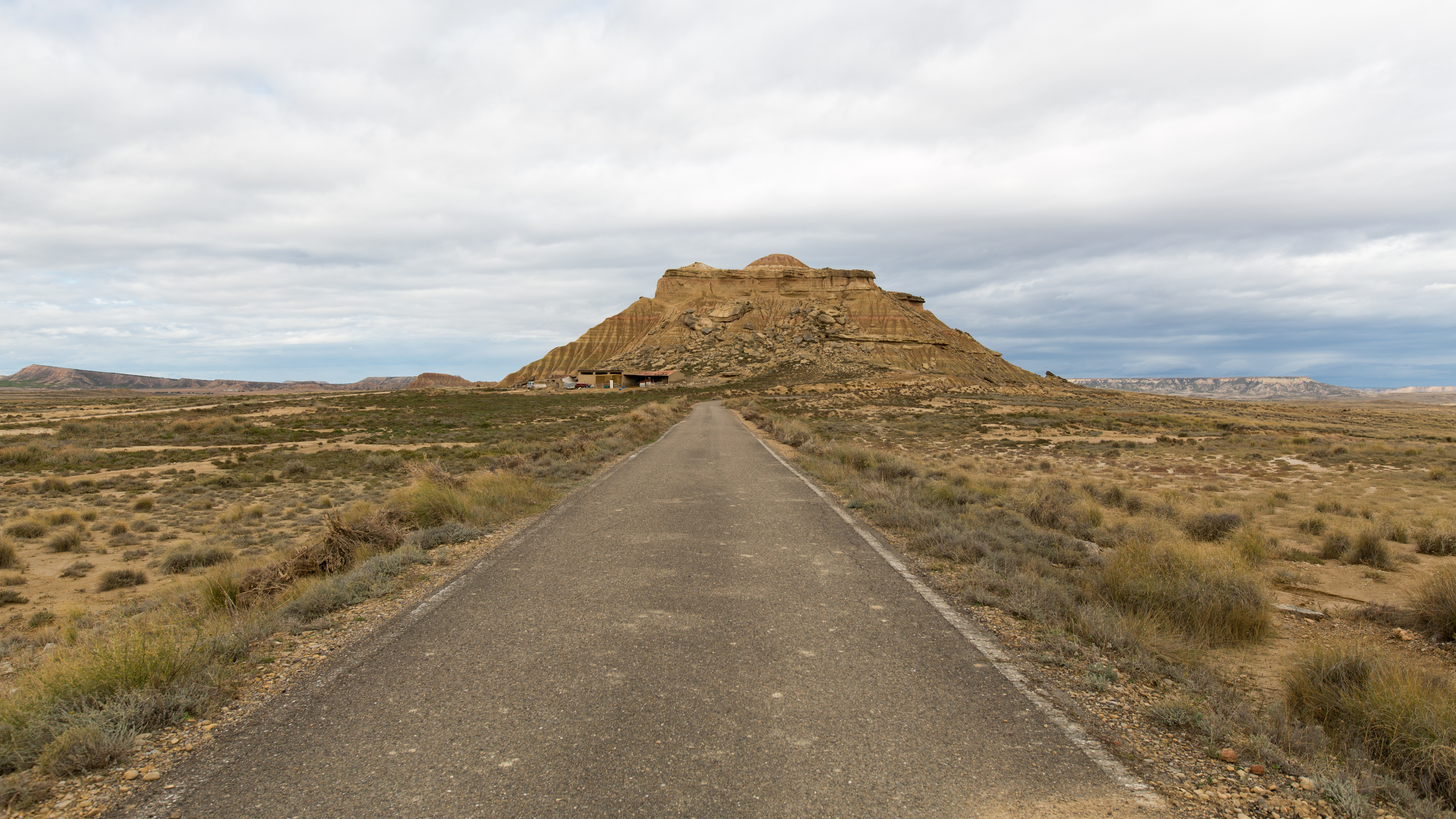 Bardenas - Tres hermanos